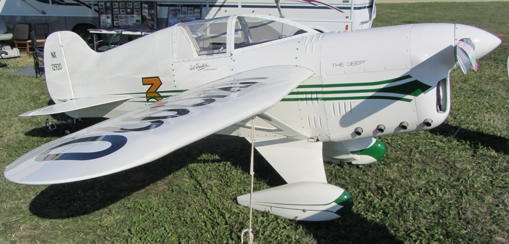 Replica of Art Chesters Jeep